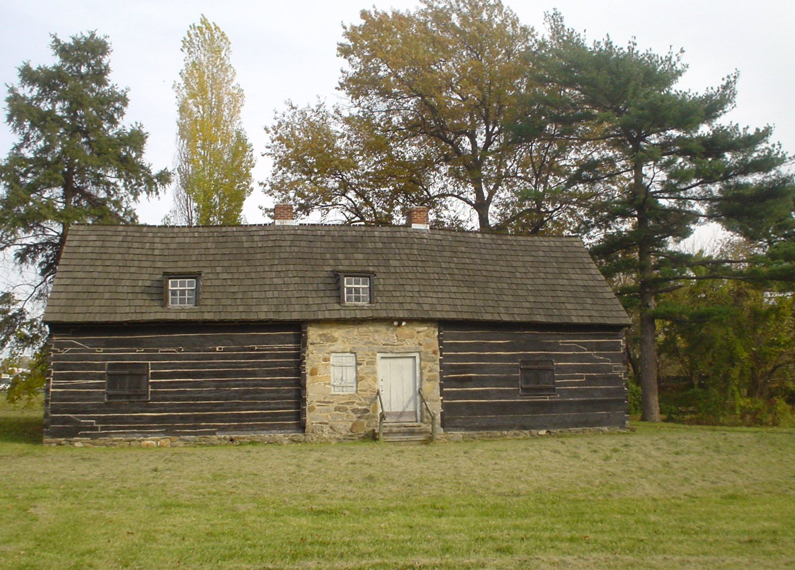 Morton Mortonsen Cabin. On NRHP. 2 separate cabins - the rhs built maybe 1698, the lhs long before (after 1653), then joined by stone walls and re-reoofed.